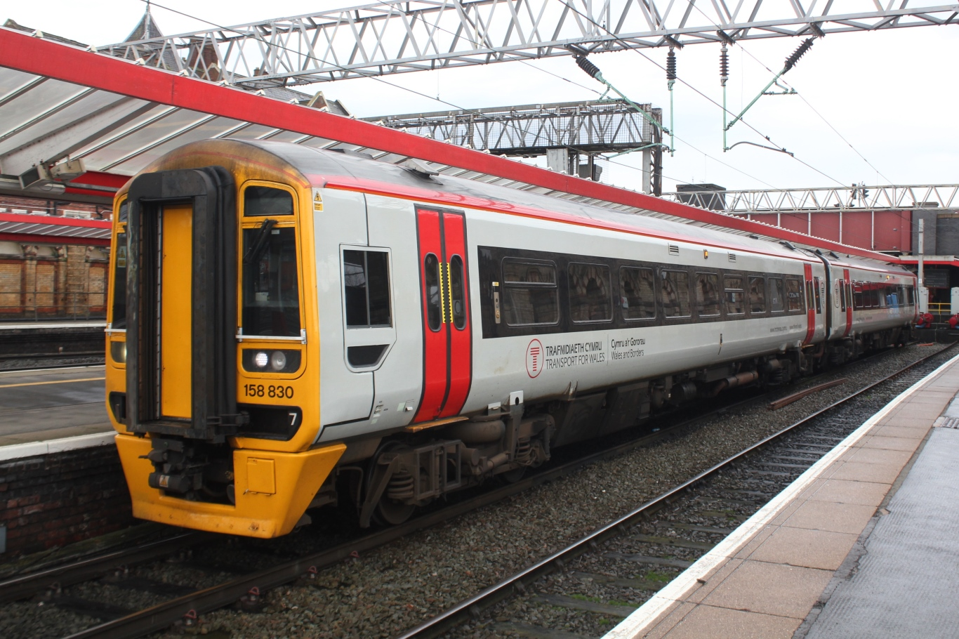 Looking smart in its new Transport for Wales colours, 158830 is at Crewe with the shuttle service to Chester.